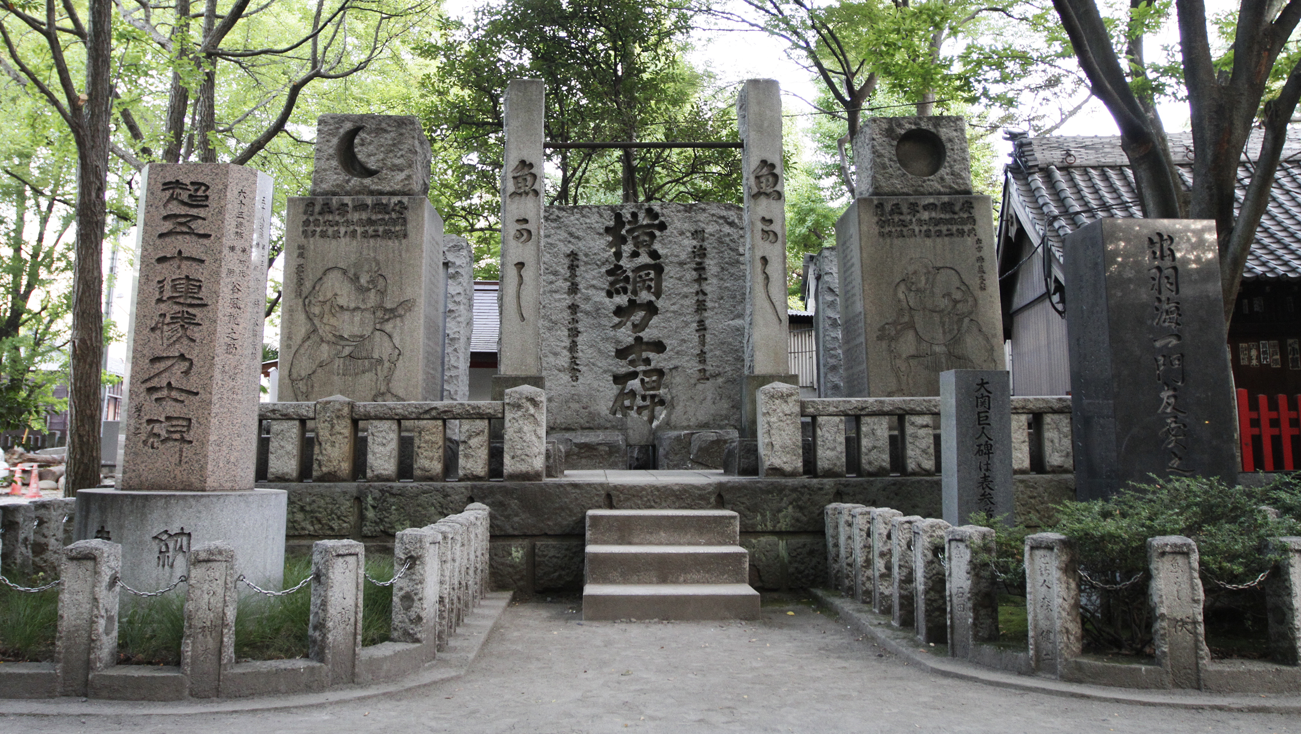 Stone Monuments of Yokozuna (Sumo wrestler) at the Tomioka Hachiman Shrine in Koto-ku, Tokyo